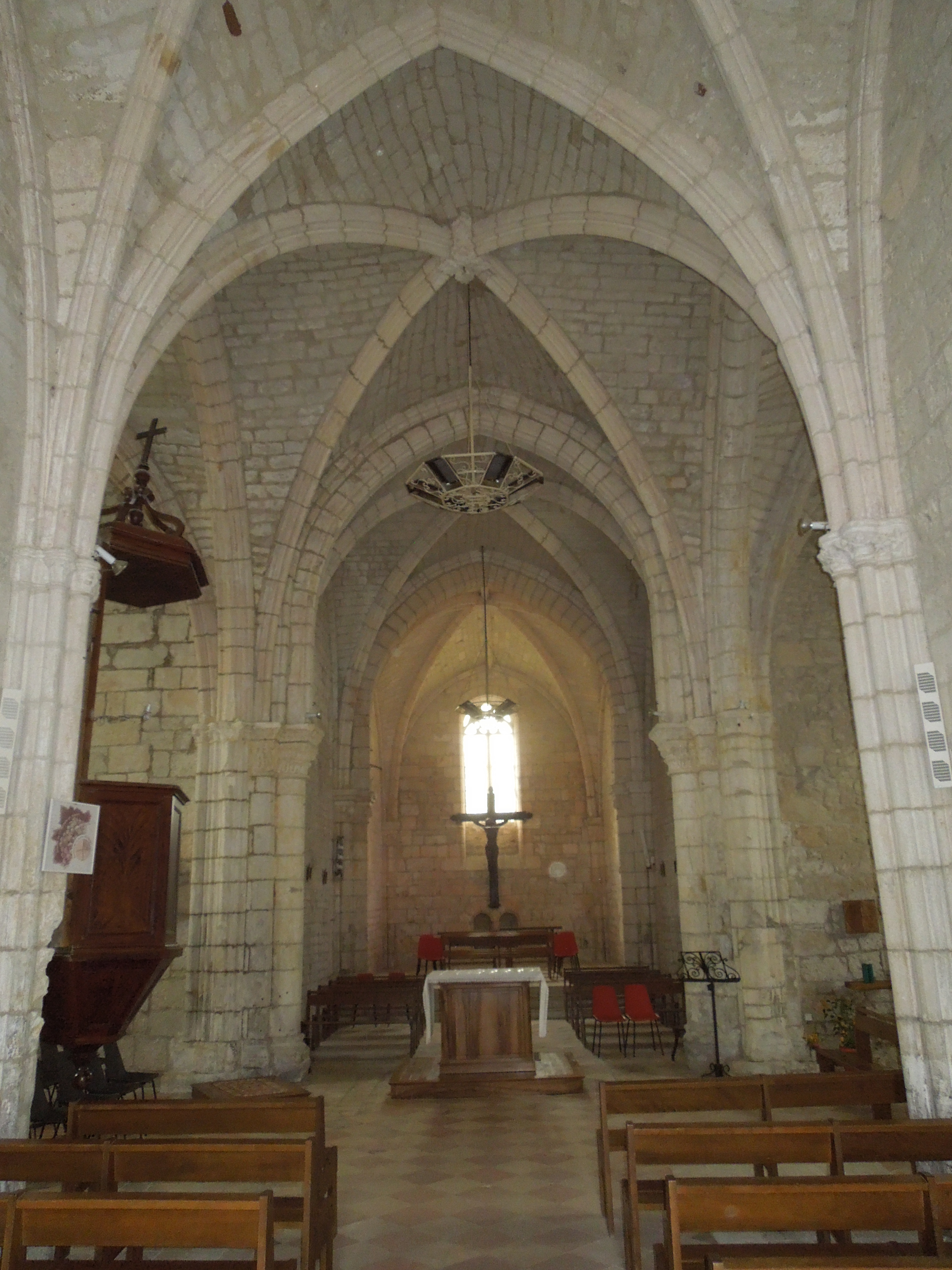 Germignac, church Saint-Pierre, nave